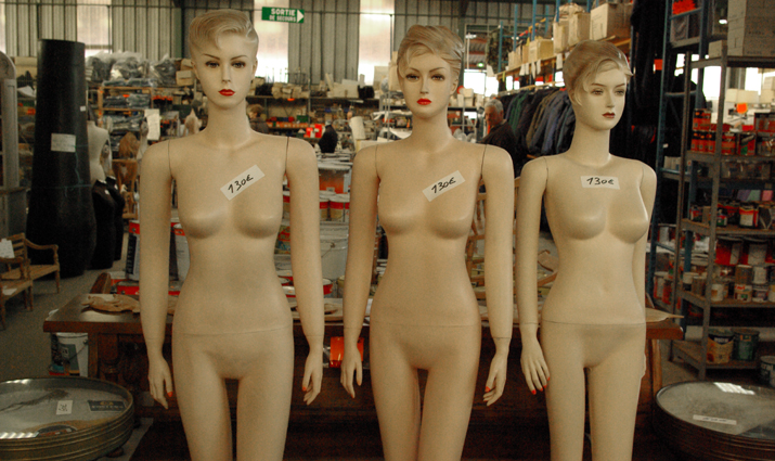 fashion dolls; merchandise, beauties for 130€